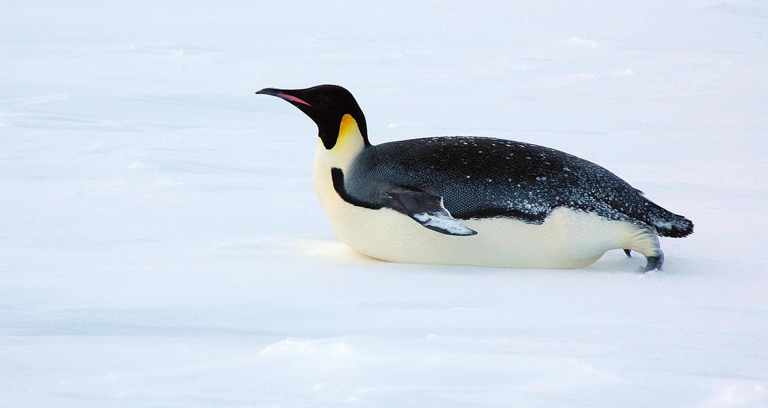 Emperor penguin on Snow Hill